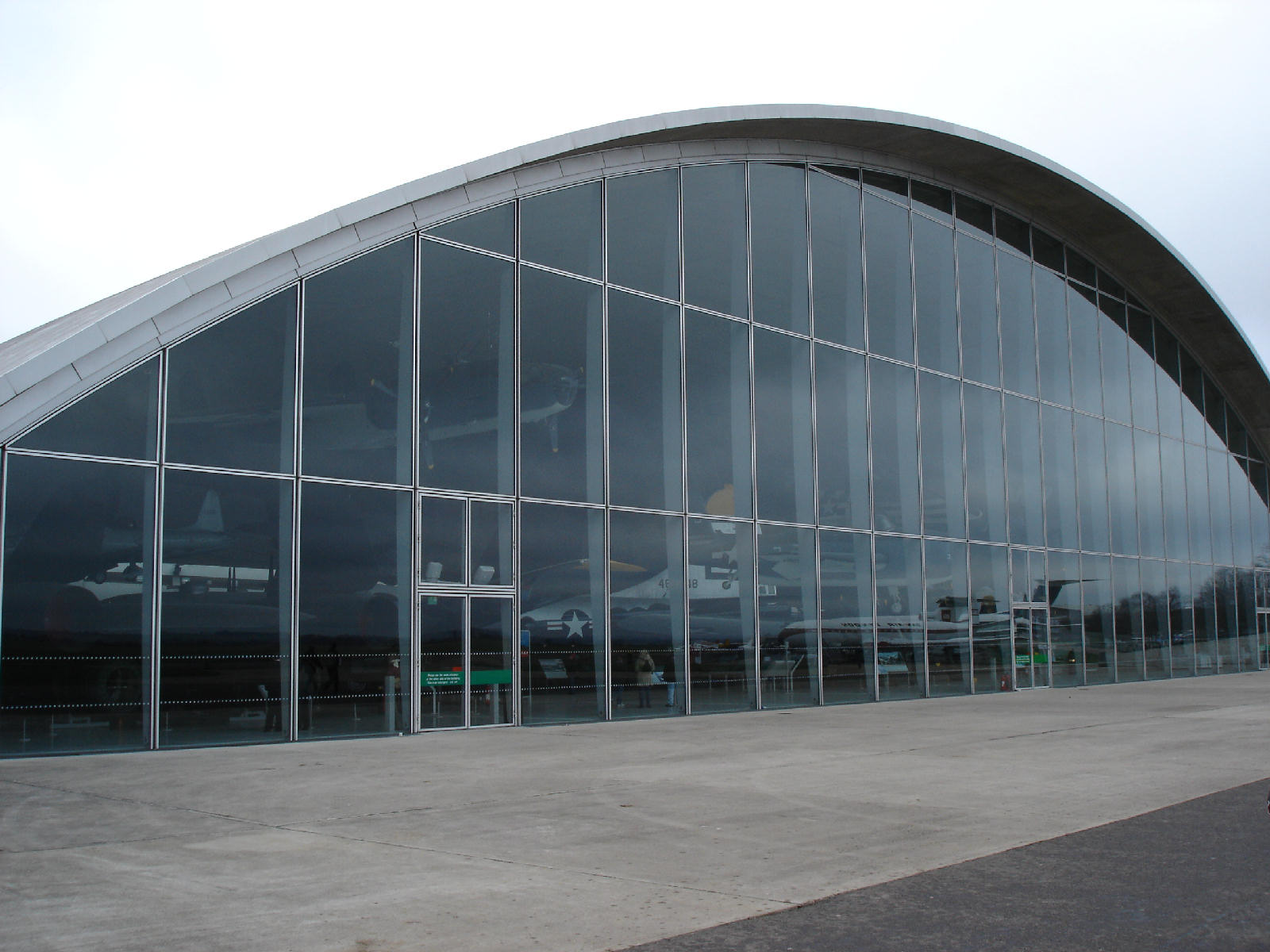 American Air Museum, Duxford, Photographed by me Martin Richards Feb 2005